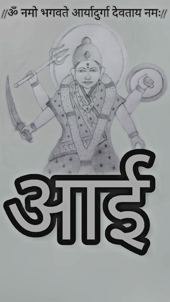 Aai Aryadurga